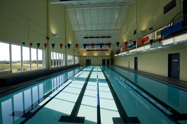 King's-Edgehill 25 meter Pool